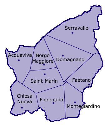 The nine castelli of San Marino (French version)